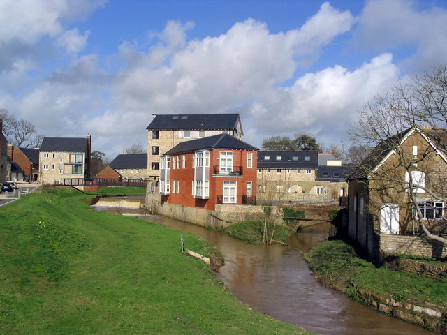 River Brit at Pymore The River Brit (right fork) is joined from the left by a stream which has just crossed a weir, beyond which is a large pond. The housing development is only a few years old, and incorporates many old features - much of the site was once industrial.